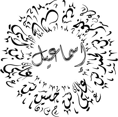 The name of the Ismaili Imam, Ismail, with the names of his direct male ancestors surrounding it.